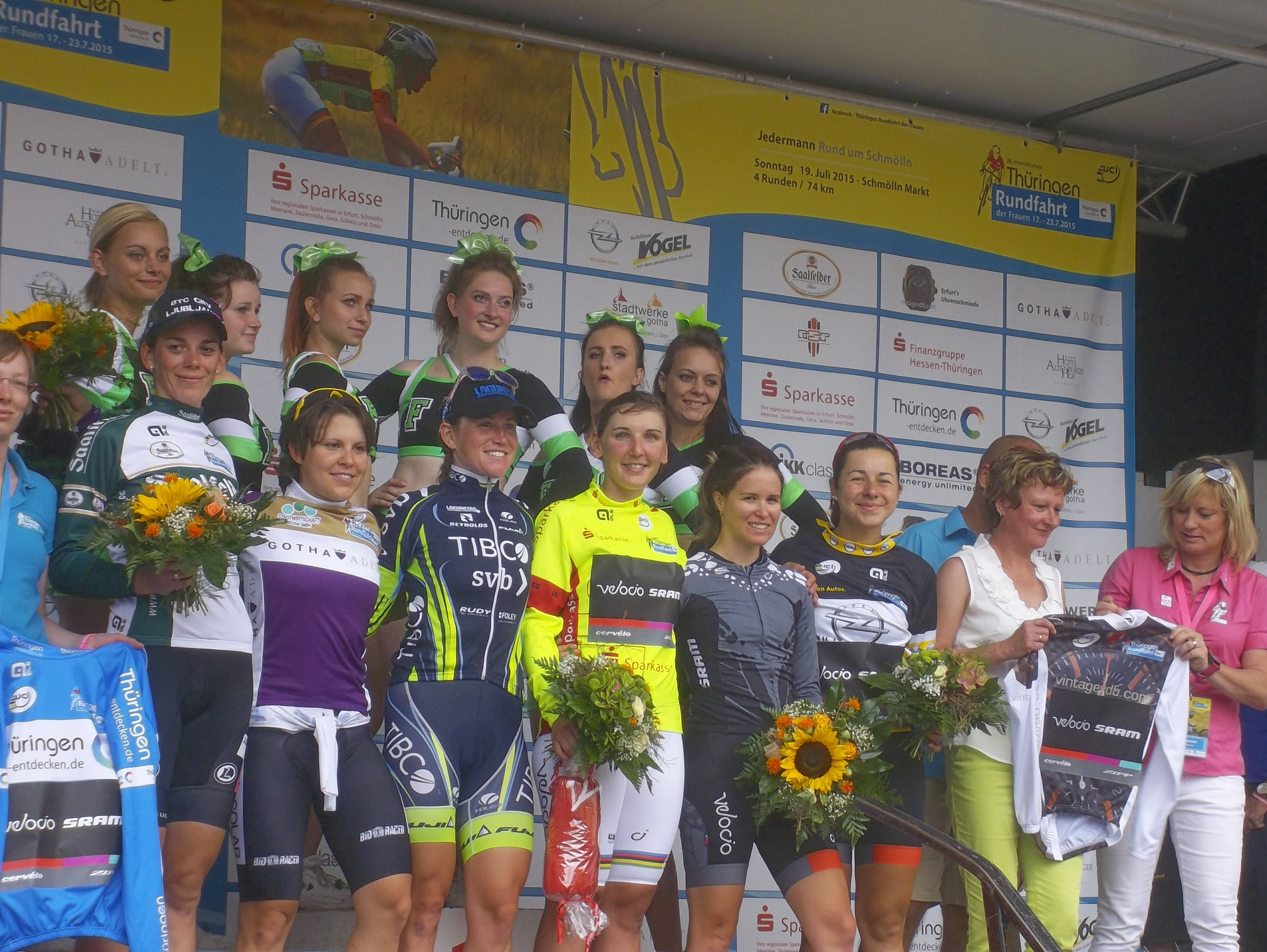 On the podium of the Thuringen Rundfahrt 2015 after stage 3a